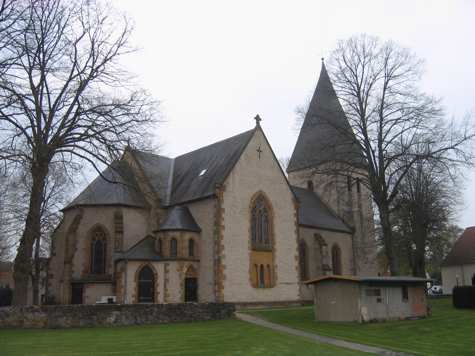 Spenge, District of Herford, North Rhine-Westphalia, Germany.